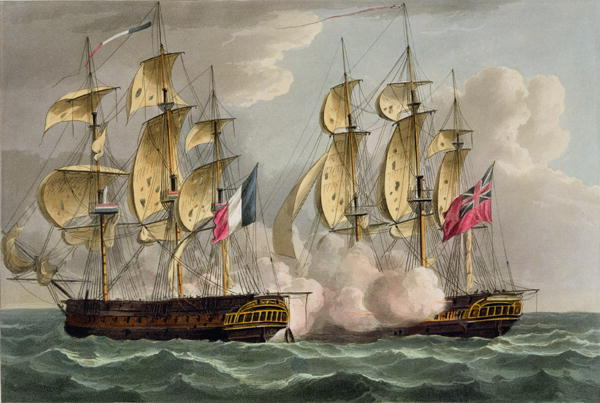 Capture of Immortalité by HMS Fisgard, 20 October 1798